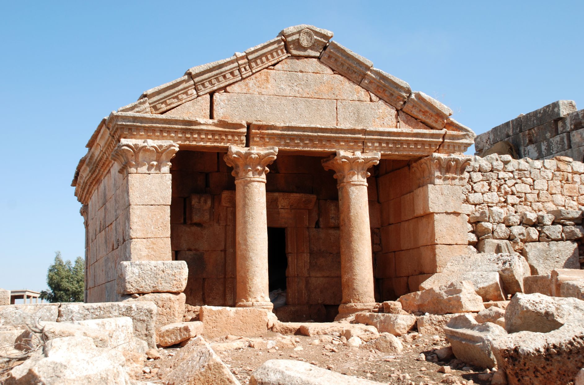 Ruweiha, dead city in Syria. Roman tomb